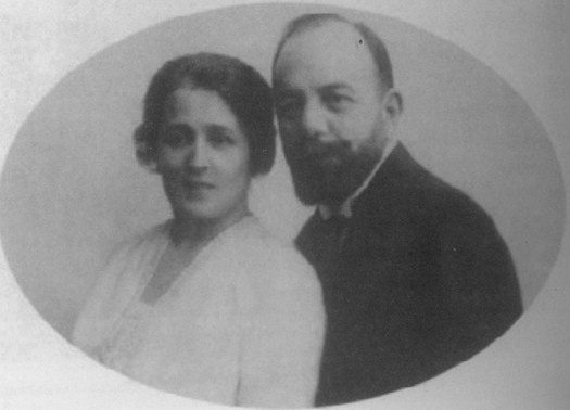 Cemal Paşa & his wife Seniha Hanım